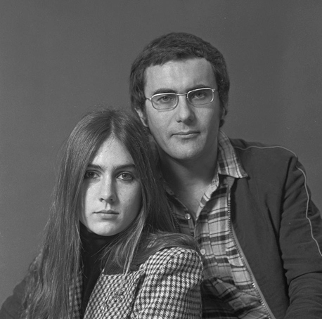 Portrait of Al Bano & Romina Power at the day of the Eurovision Song Contest 1976